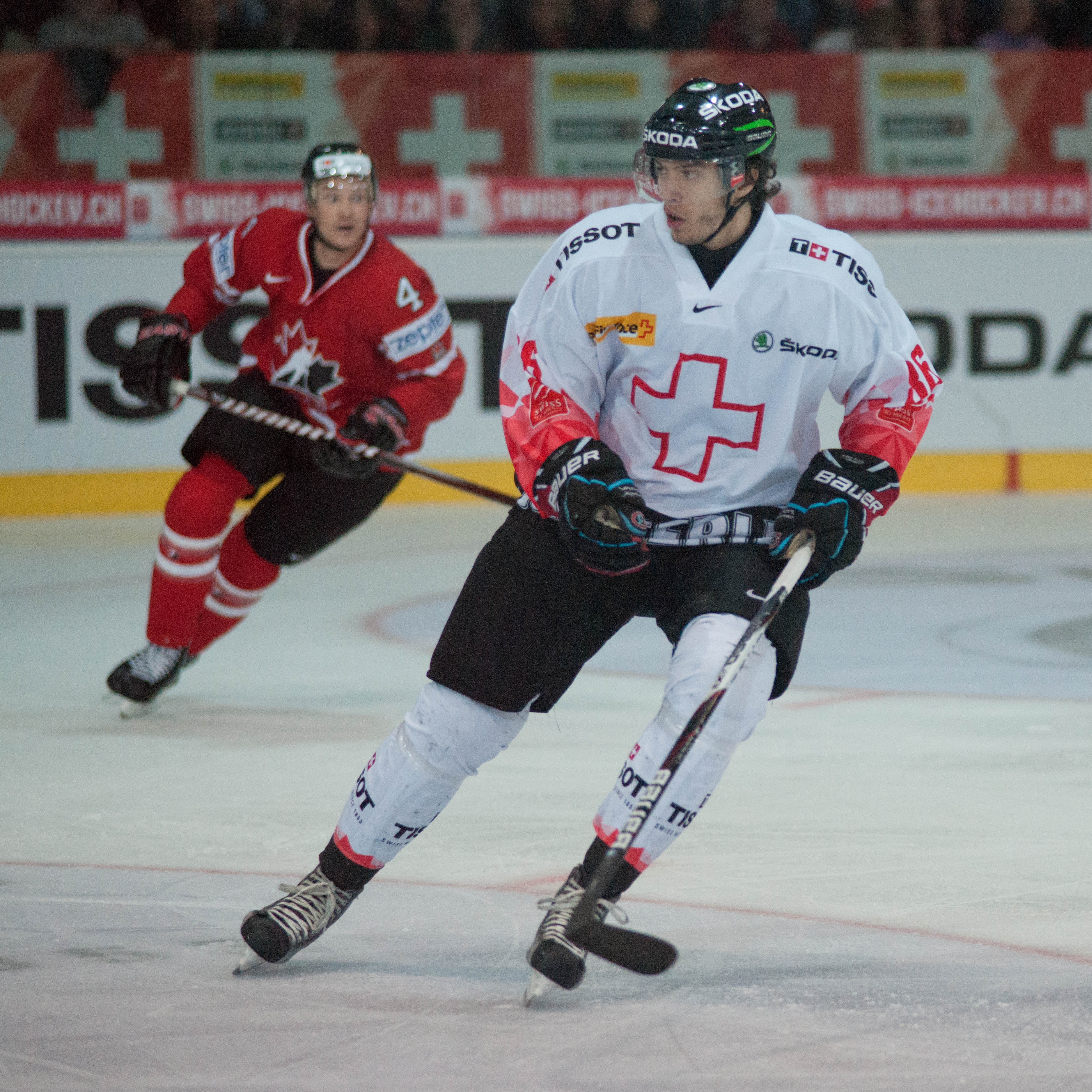 Switzerland vs. Canada, 29th April 2012